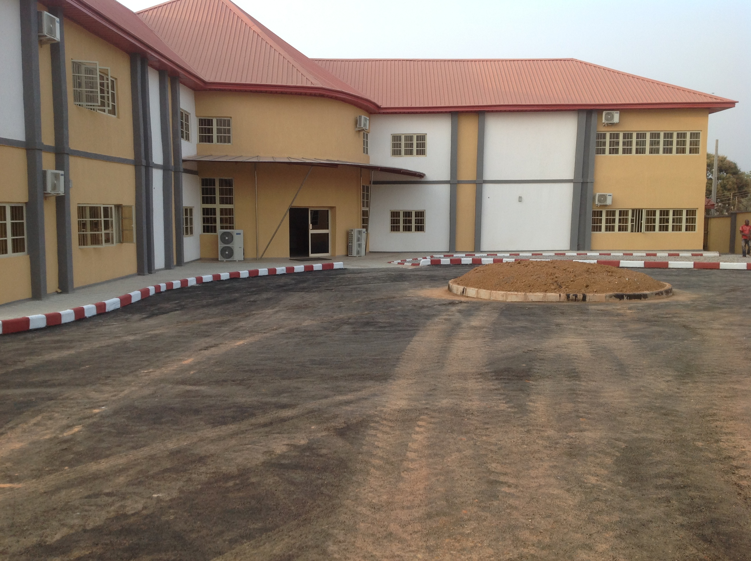 Godfrey Okoye University's E-Library